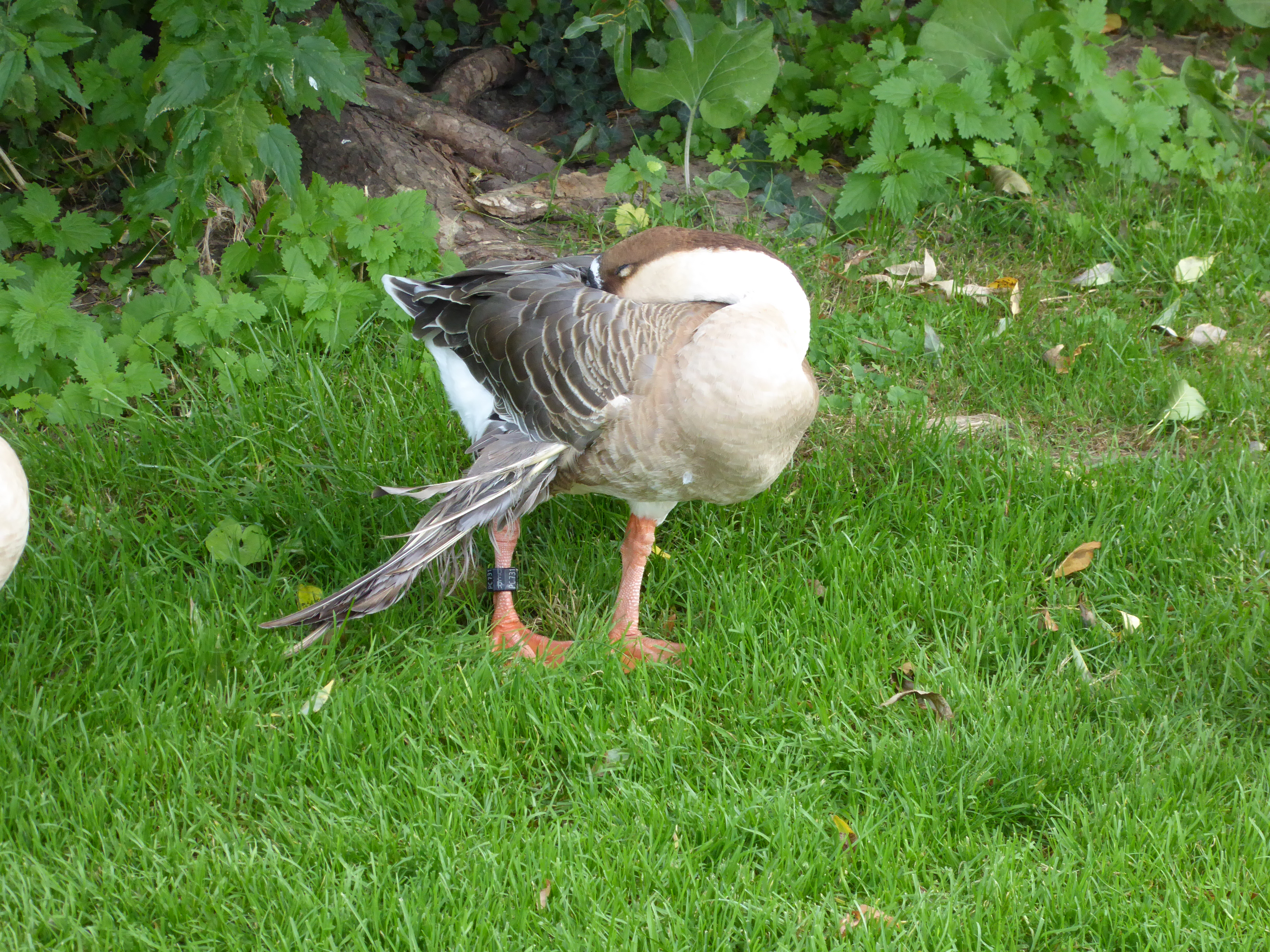 Swan goose with angel wing